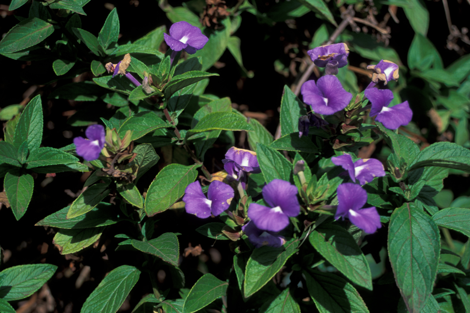 Otacanthus caeruleus (flowers). Location: Maui, Enchanting Floral Gardens of Kula